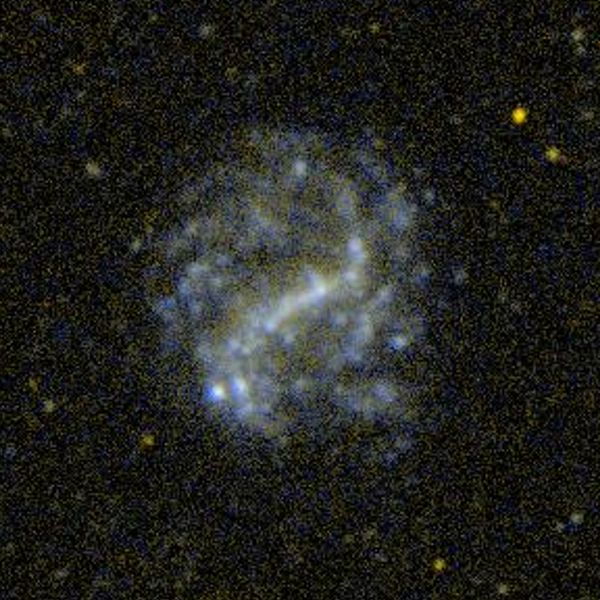 NGC 4204 by GALEX